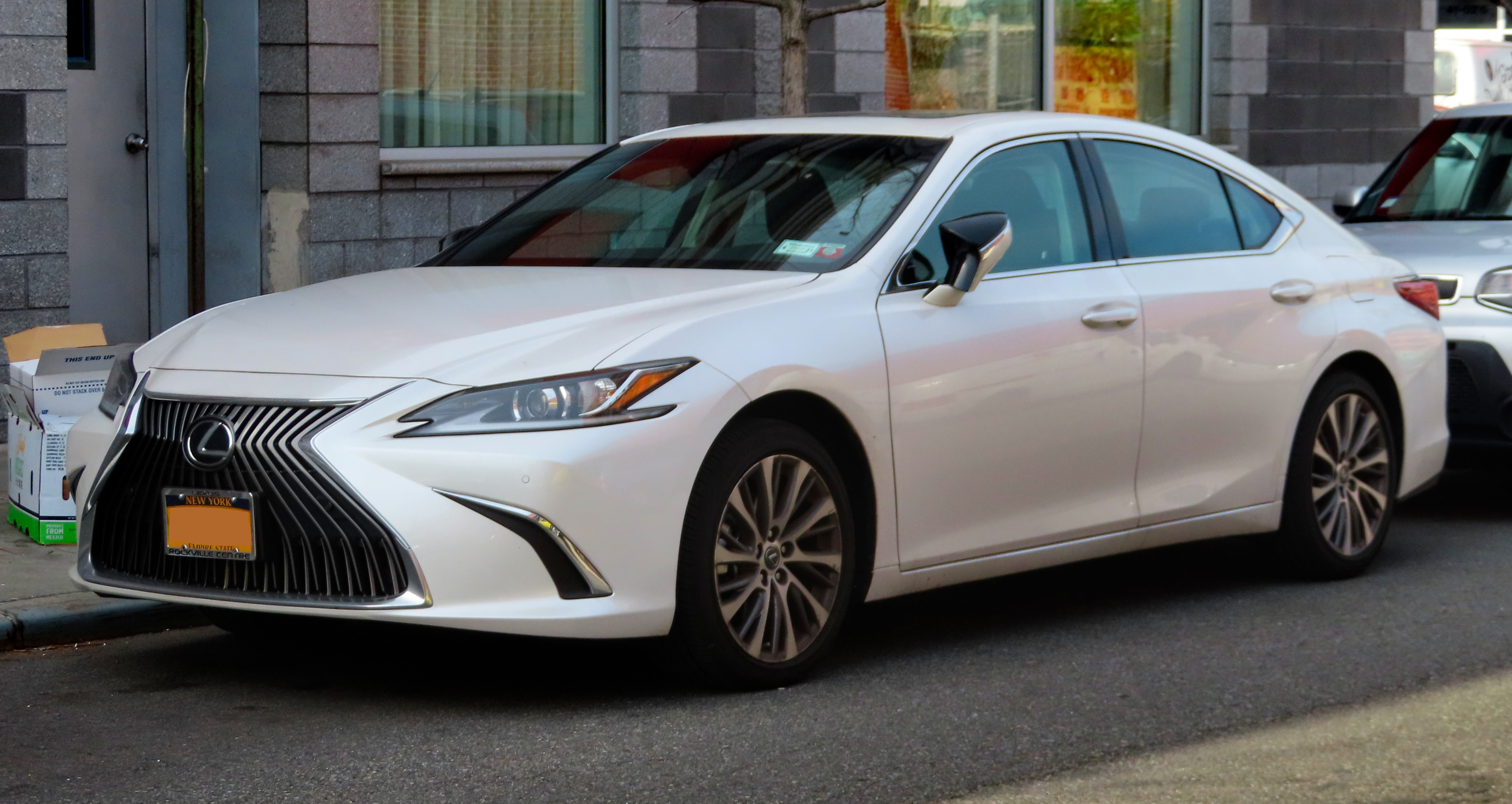 A 2019 Lexus ES 350 photographed in Flushing, Queens, New York, USA